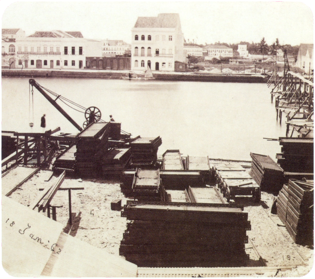 Construction site in the docks of Recife, capital of Pernambuco province, 1862.